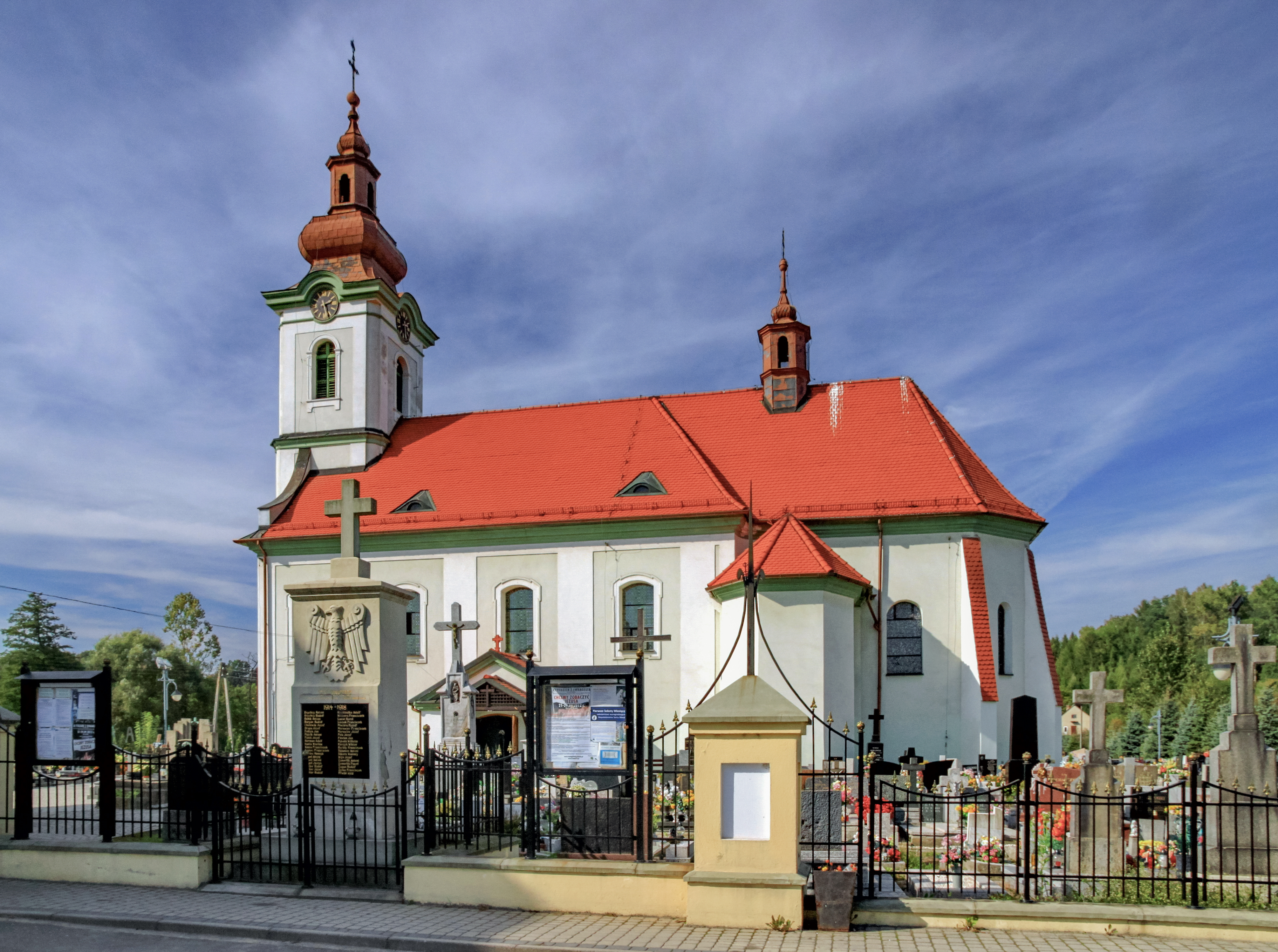 Assumption of Saint Mary church. Zebrzydowice, Silesian Voivodeship, Poland.